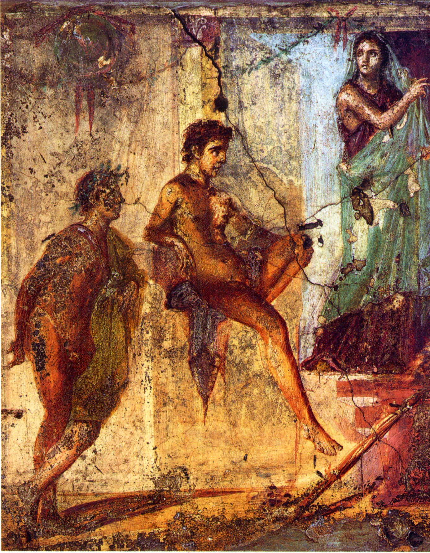 Scene from the tragedy Iphigenia in Tauris by Euripides.In the center Orestes, on the left Pylades, on the right Iphigeneia. Roman fresco from the triclinium of the procurator in the Casa del Centenario (IX 8,3-6) in Pompeii.